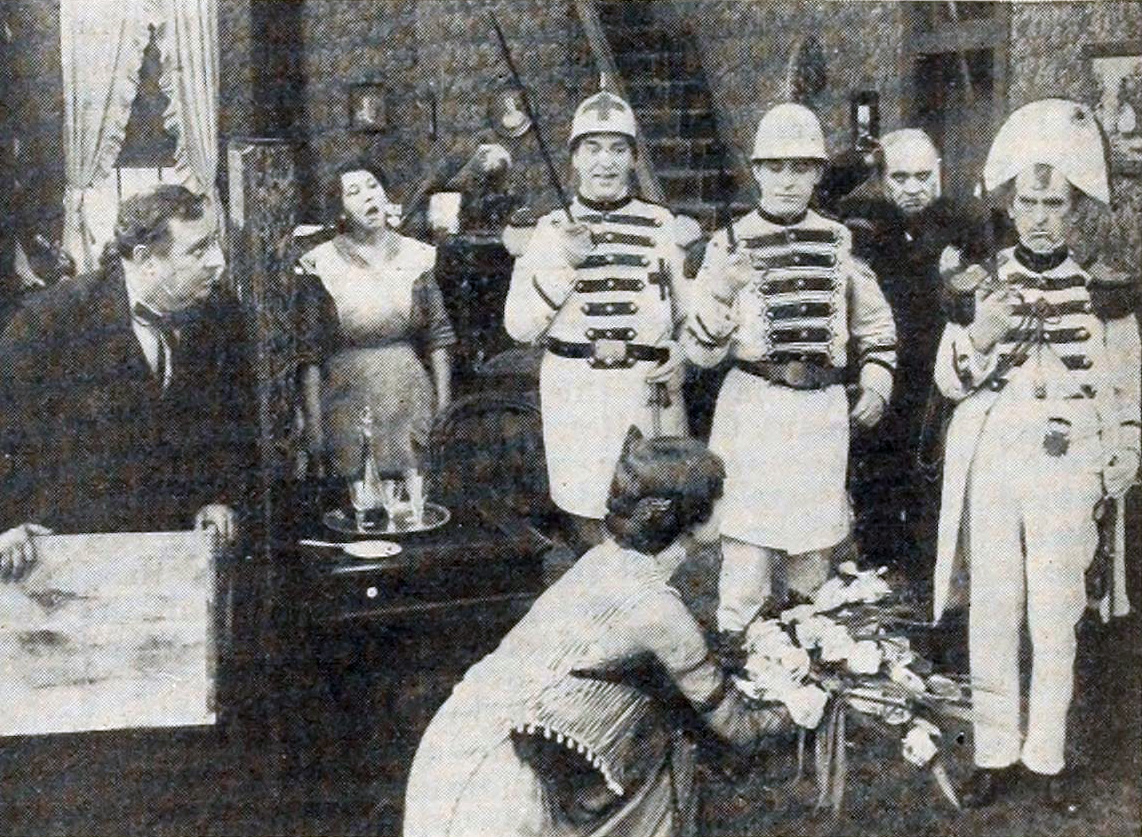 Illustration of a review in The Moving Picture World for the film A Milk White Flag (1916).